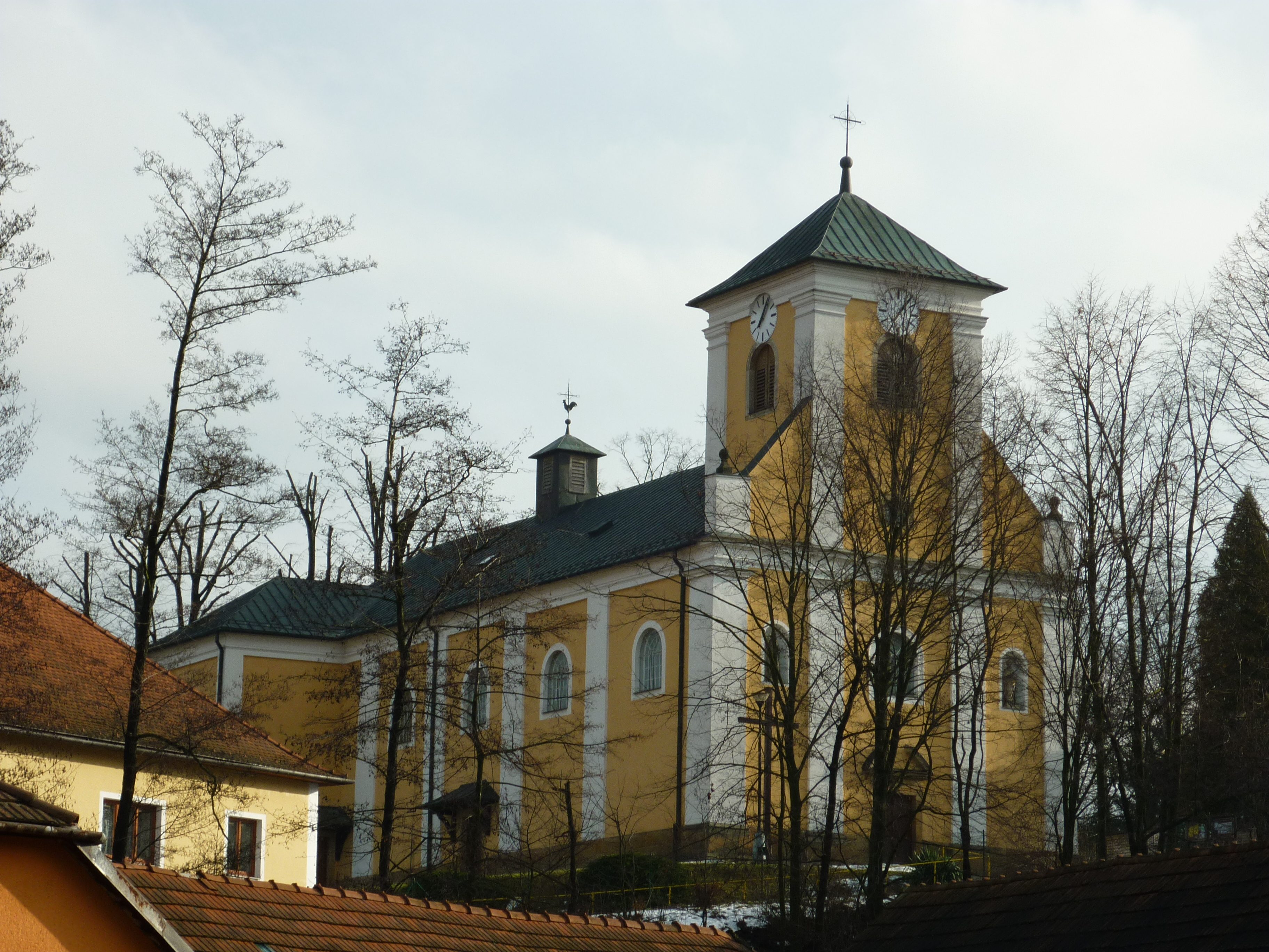 Church of Saints Peter and Paul in Želechovice nad Dřevnicí, Czech Republic